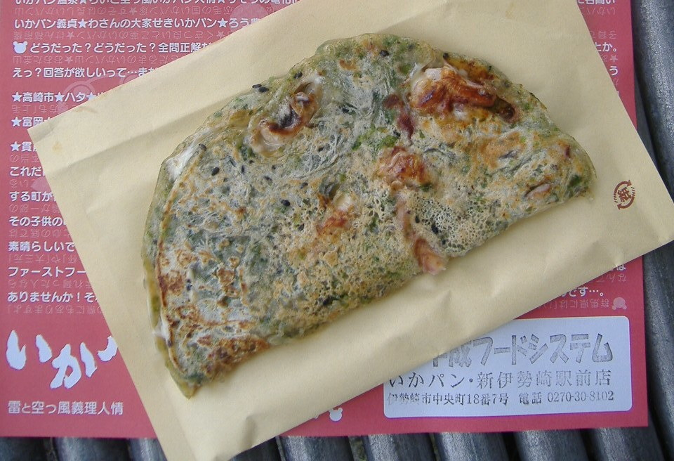 New style okonomiyaki "Ikapan"